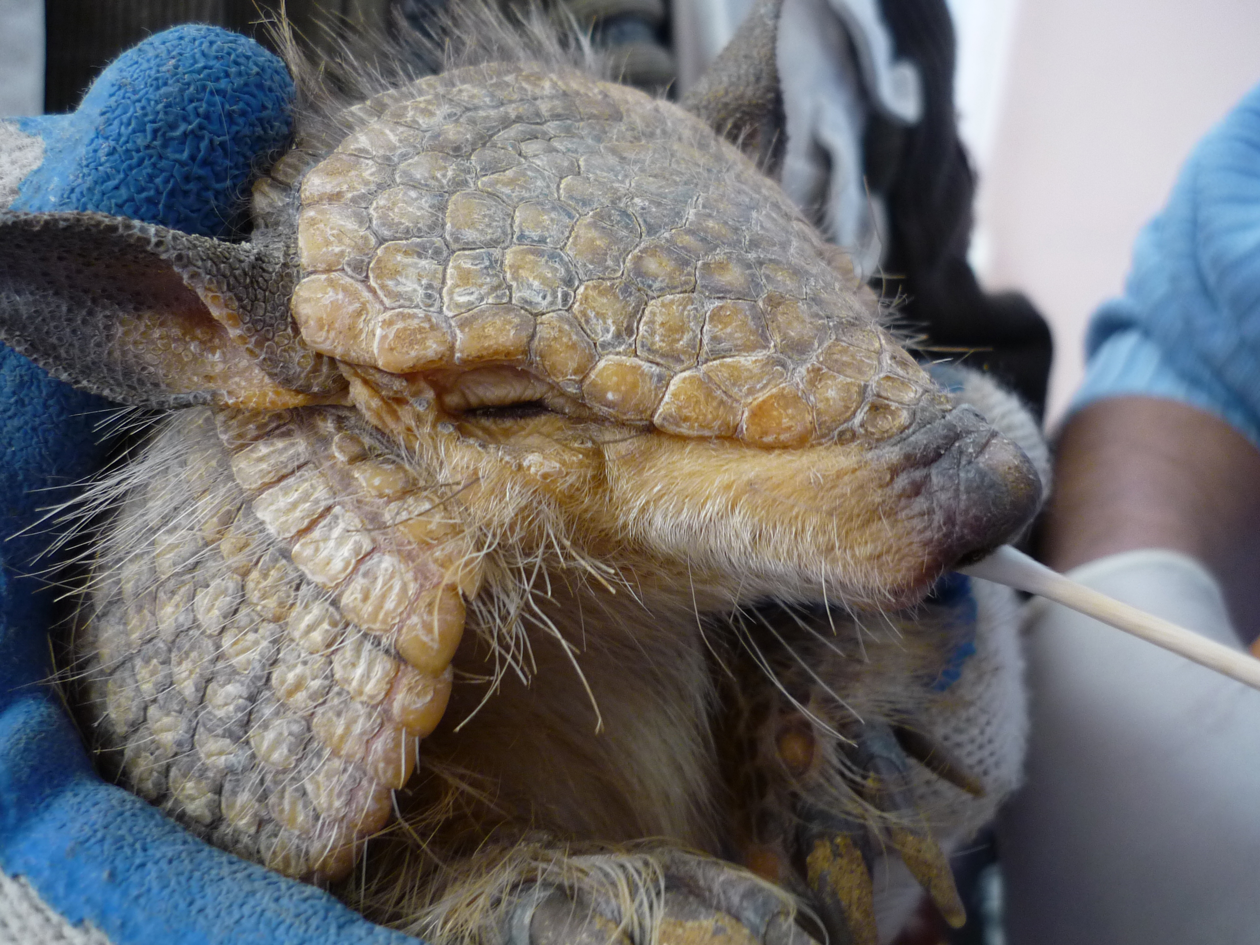 Chaetophractus nationi Andean hairy armadillo